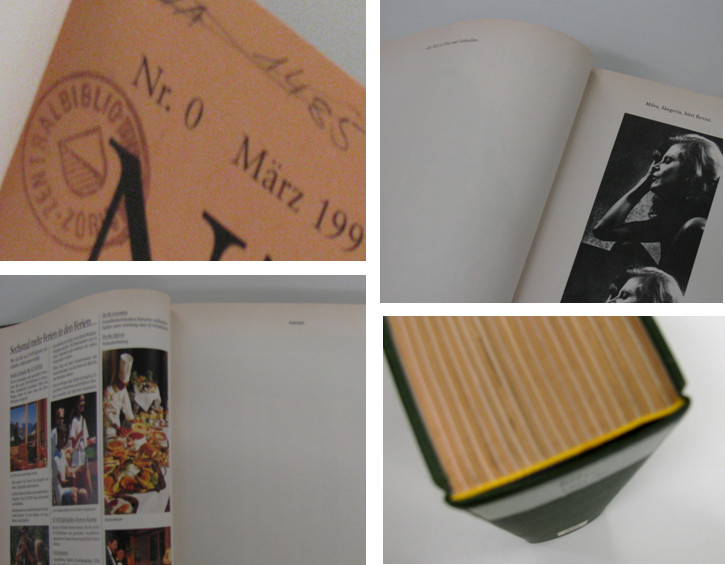 Nullnummer eines Zeitungsmagazins